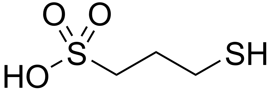 Chemical structure of 3-Mercapto-1-propanesulfonic_acid